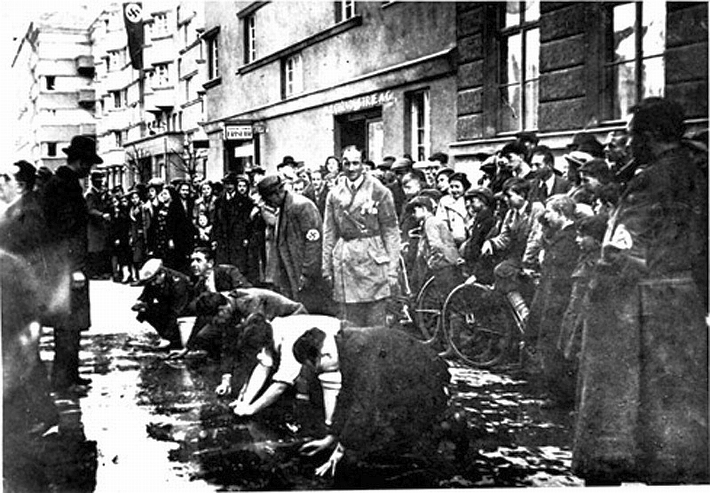 75th Anniversary of the pogroms of November 1938: Jewish businessmen of 3 District of Vienna were repeatedly forced in March and April, 1938, to rub sidewalks in front of numerous spectators. (Photo DOeW 7857) - 4/4.